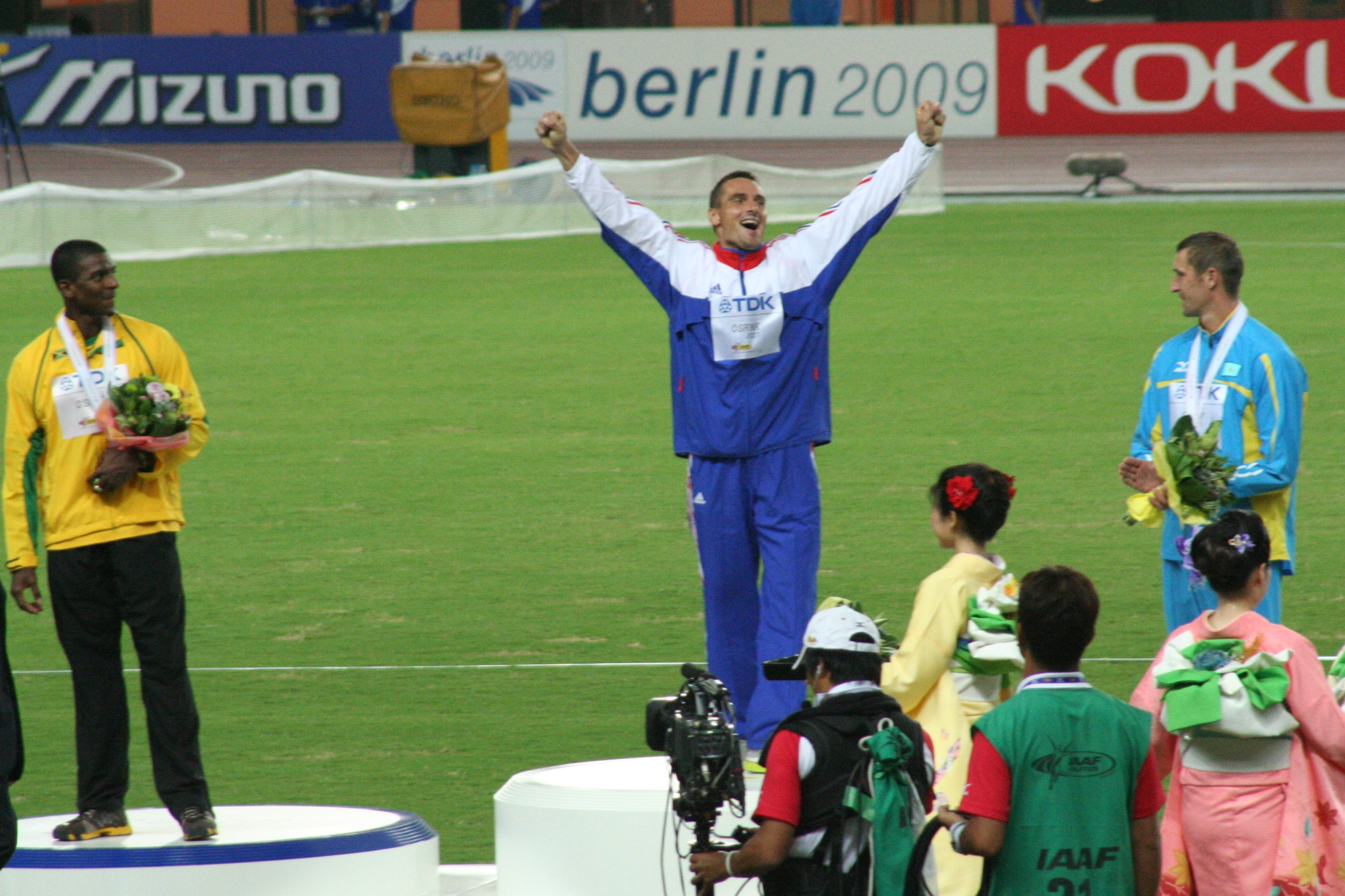 World Athletics Championships 2007 in Osaka - Decathlon Victory Ceremony, left to right: Maurice Smith JAM, Roman Šebrle CZE, Dmitriy Karpov KAZ